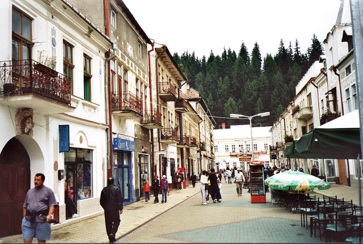 Commercial street in Vatra Dornei